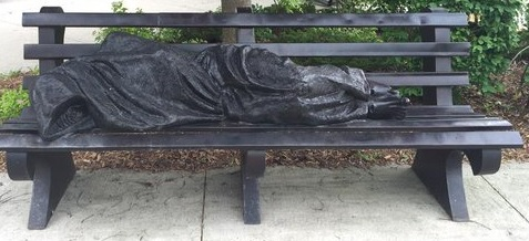 Homeless Jesus sculpture on the campus of at King's University College at Western University.